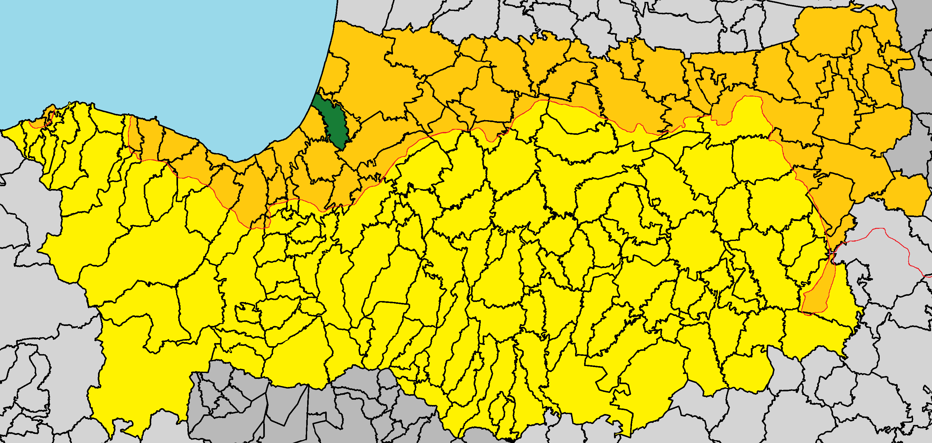 Prastio in Nicosia District (de jure).